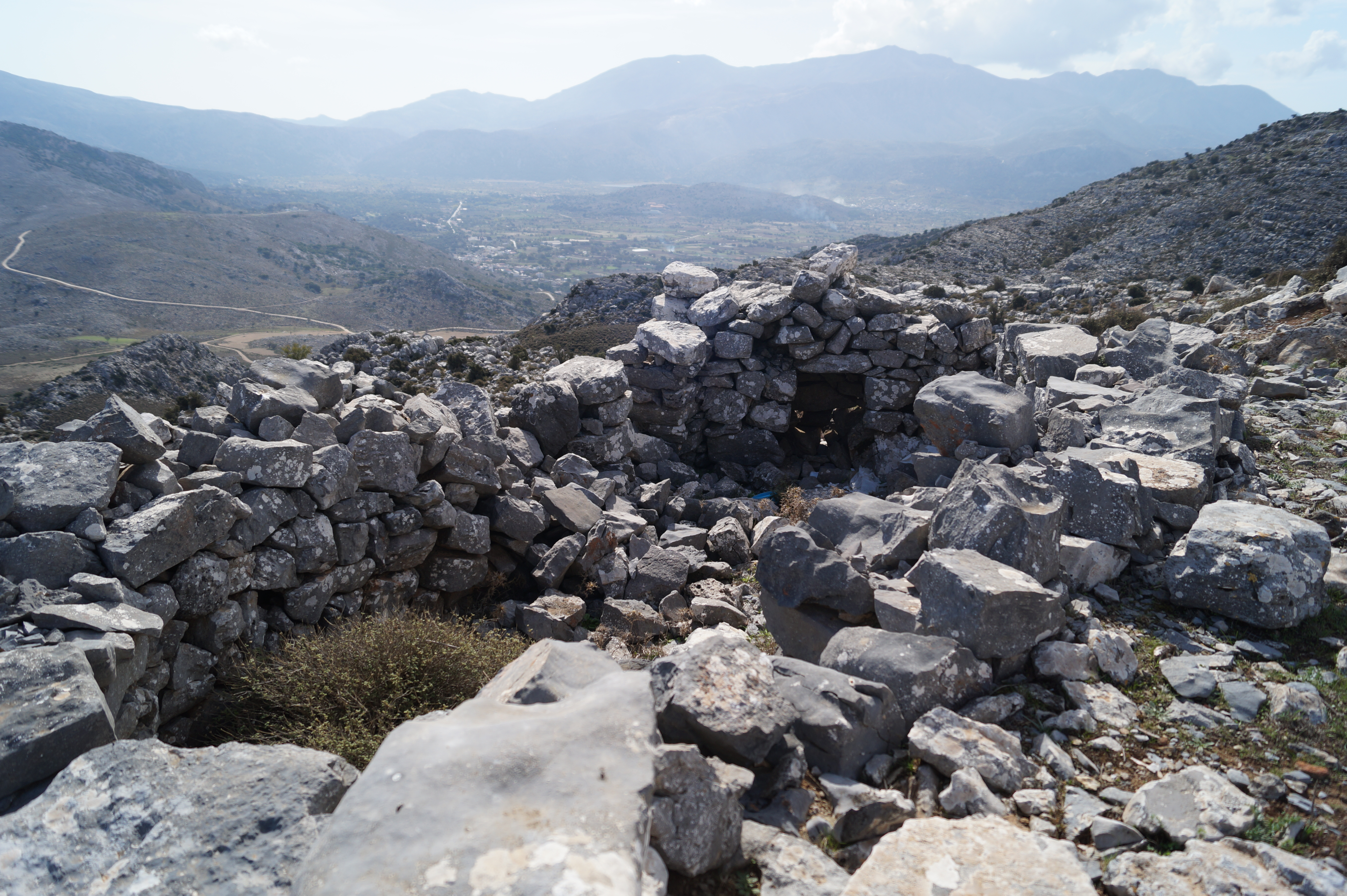 Lasithi, Crete: Ancient building of Karfi on the east slope of Mikri Kaprana.